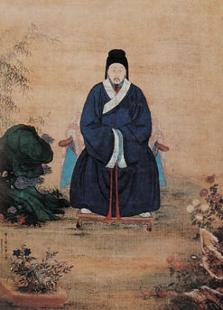 Huang Daozhou (Chinese: 黄道周, 1585–1646) was a Chinese calligrapher, scholar and official of the Ming Dynasty. Huang obtained the degree of Jinshi in 1622. He subsequently held various government positions, including Minister for Education. He was known for providing candid advice to the emperors. This made him very unpopular with the Chongzhen Emperor. As a result, Huang was demoted and sent to prison.